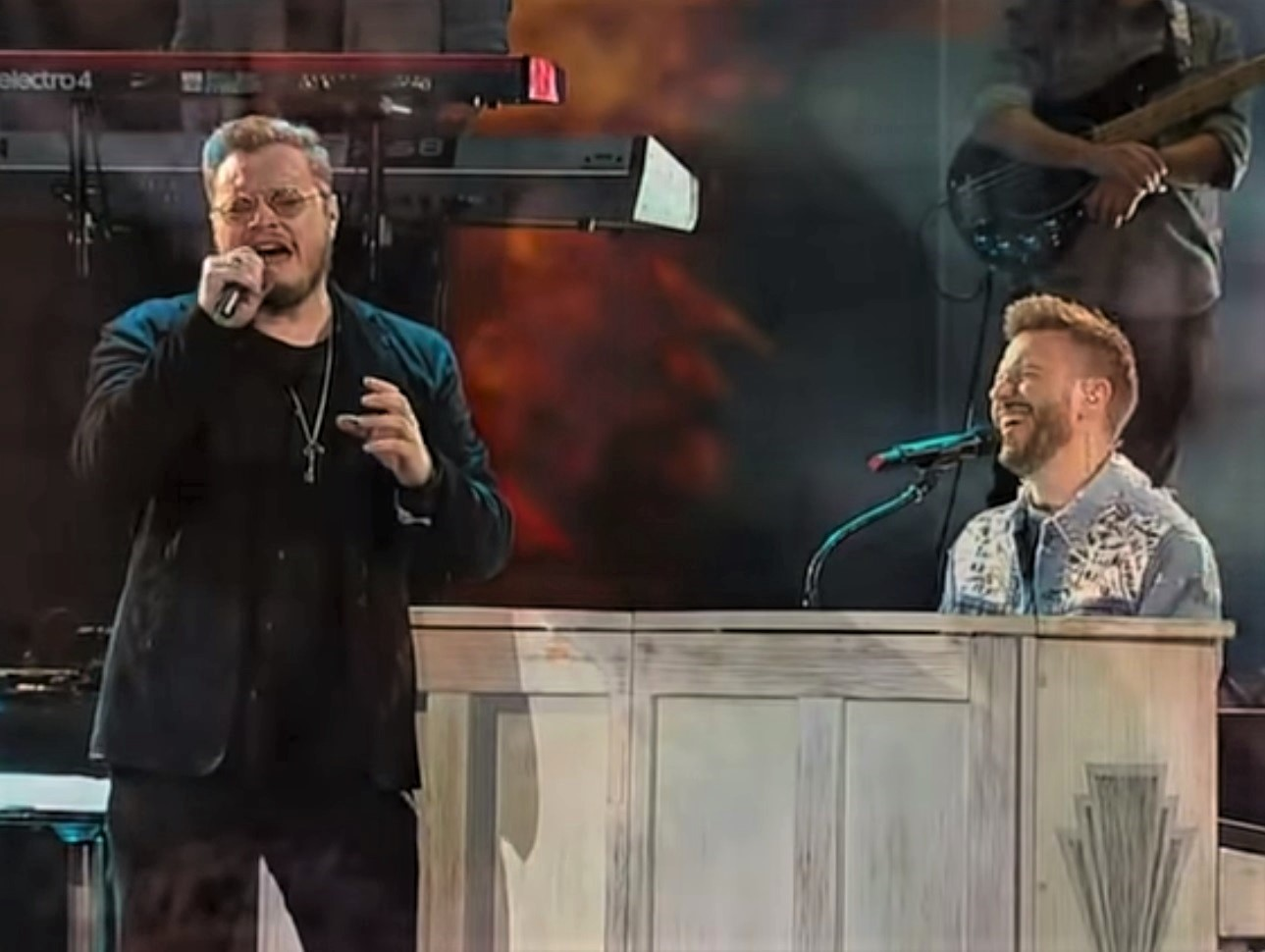 Mexican pop music duo Sin Bandera performing at Viña del Mar International Song Festival in February 2017.